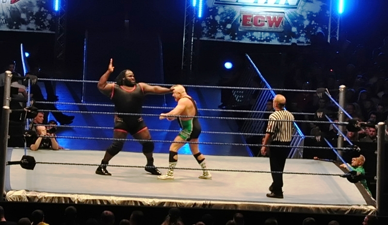 wwe wrestler mark henry vs finlay